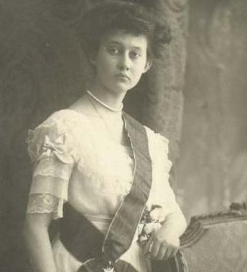 Marie-Adélaïde, Grand Duchess of Luxembourg.jpg (1884-1924)